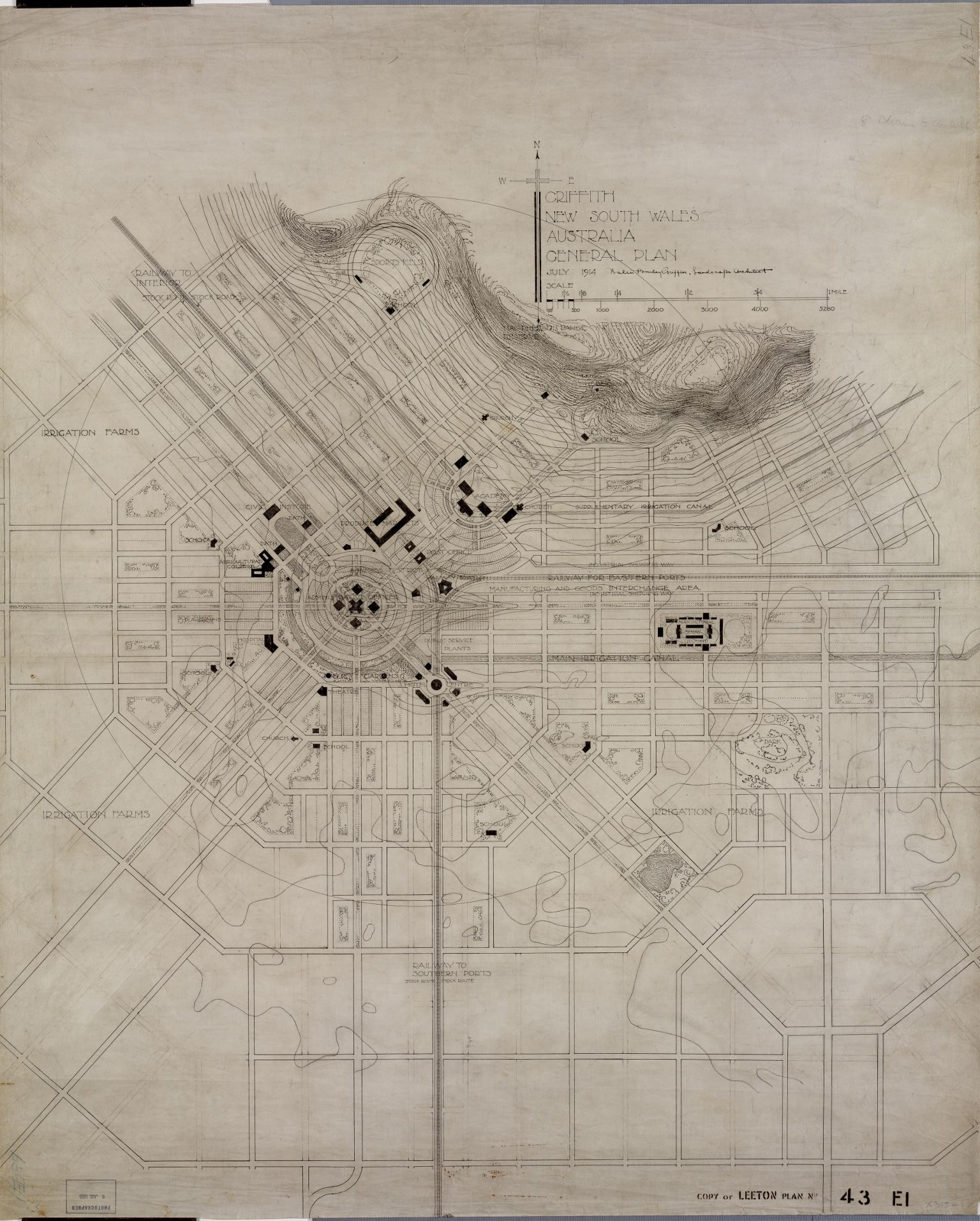 Series: Water Conservation and Irrigation Commission - Town Plans of Leeton & Griffith, 1914 Dated: September 1914 Item: [SR Plan X3153] Rights: We'd love to hear from you if you use our maps/plans. Many other photos in our collection are available to view and browse on our website using Photo Investigator .